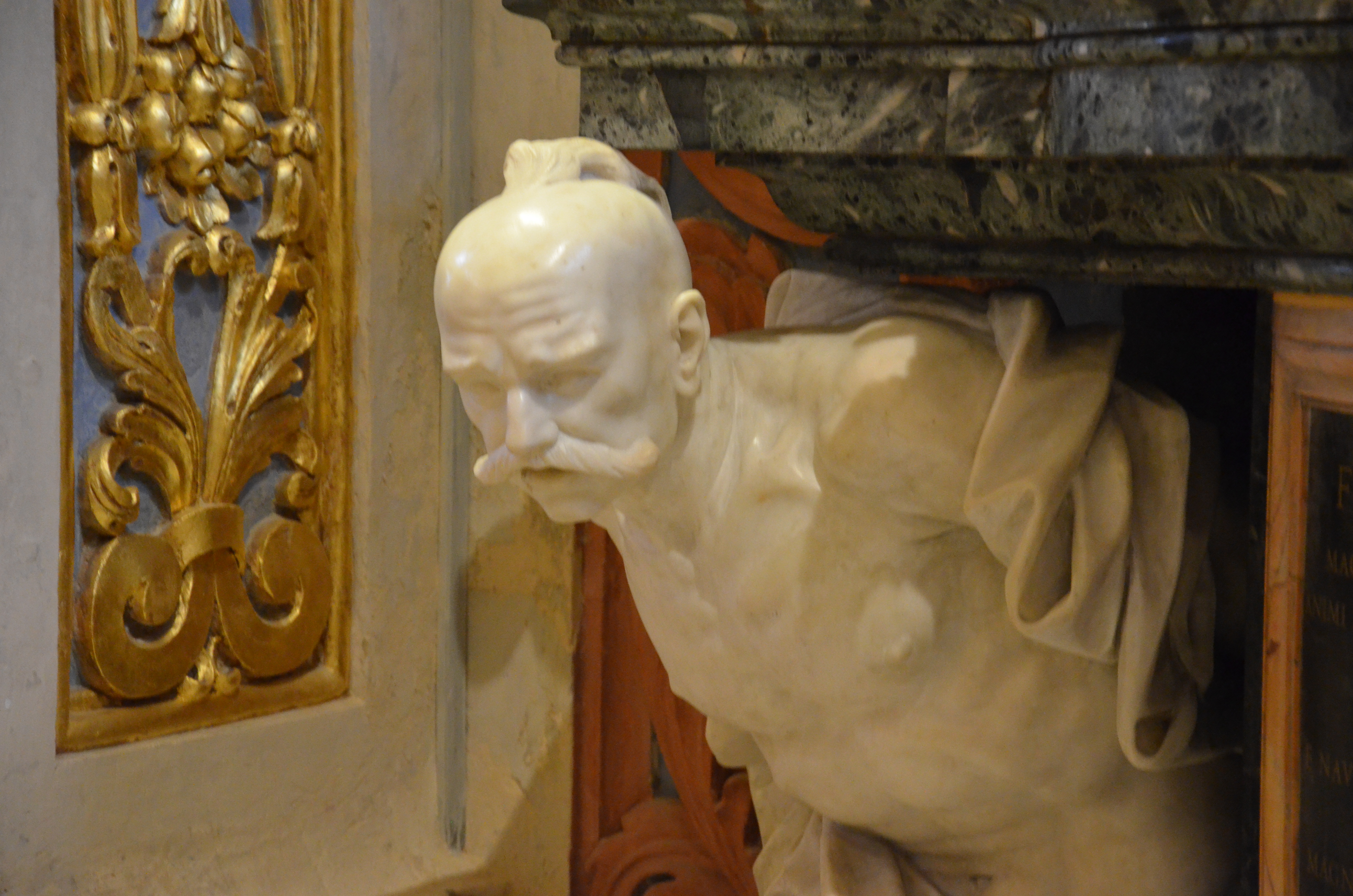 The sculpture of Asian slave as a part of the monument of Grand Master Nicola Cottoner at the Chapel of Aragon. St. John's Co-Cathedral